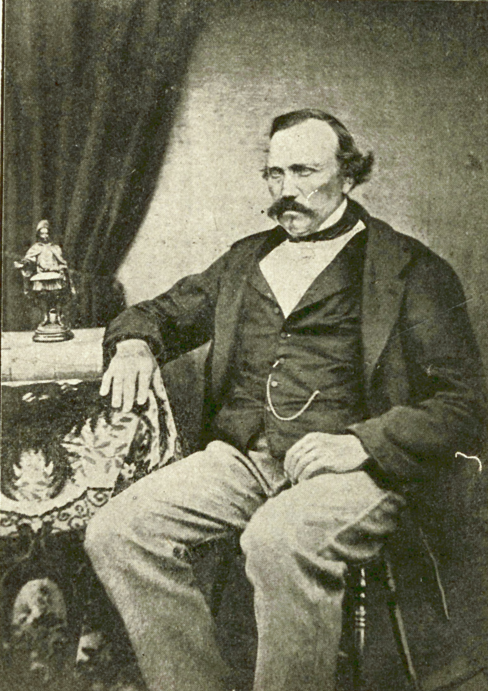 Oldest photograph of the first president of the South African Republic,taken in 1855 in Natal